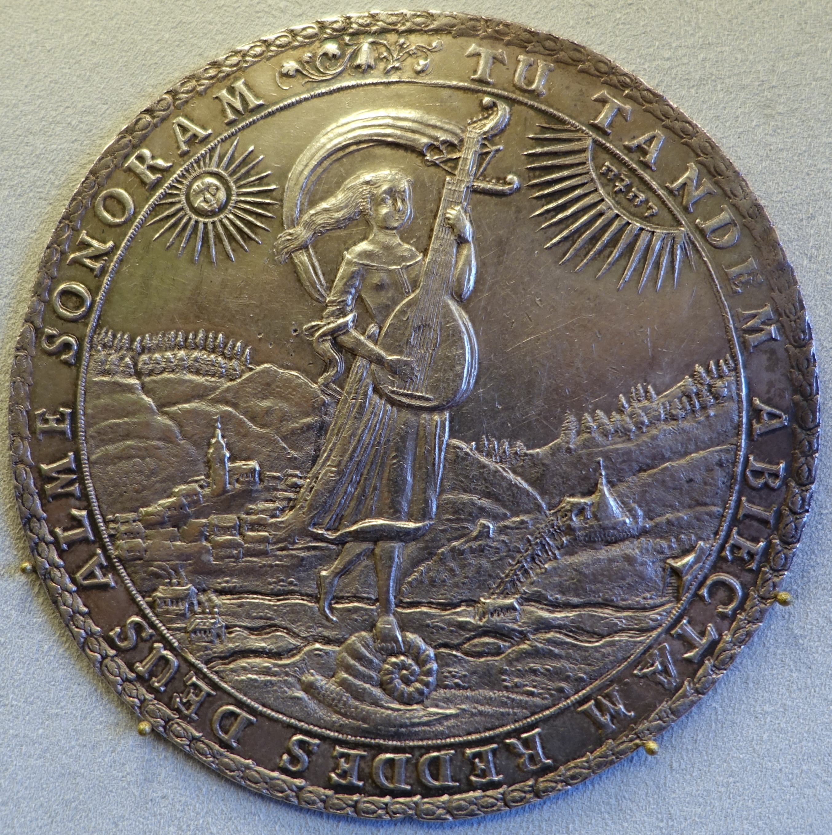 Germany, Principality of Brunswick-Wolfenbüttel, Rudolph Augustus as Prince of Brunswick-Wolfenbüttel 1666-1704. Ag 3 Thaler 1685 (76mm, 77-79g), reverse: Lute player above snail; circumscr.: TU TANDEM ABIECTAM REDDES DEUS ALME SONORAM (Finally You, blessing God, will restore the lost fame; motto of the silver mine Grube Lautenthals Glück, from the first silver of which after recommissioning in 1685 this presentation thaler was coined). Welter 1834. Exhibit in the Bode-Museum, Berlin, Germany.